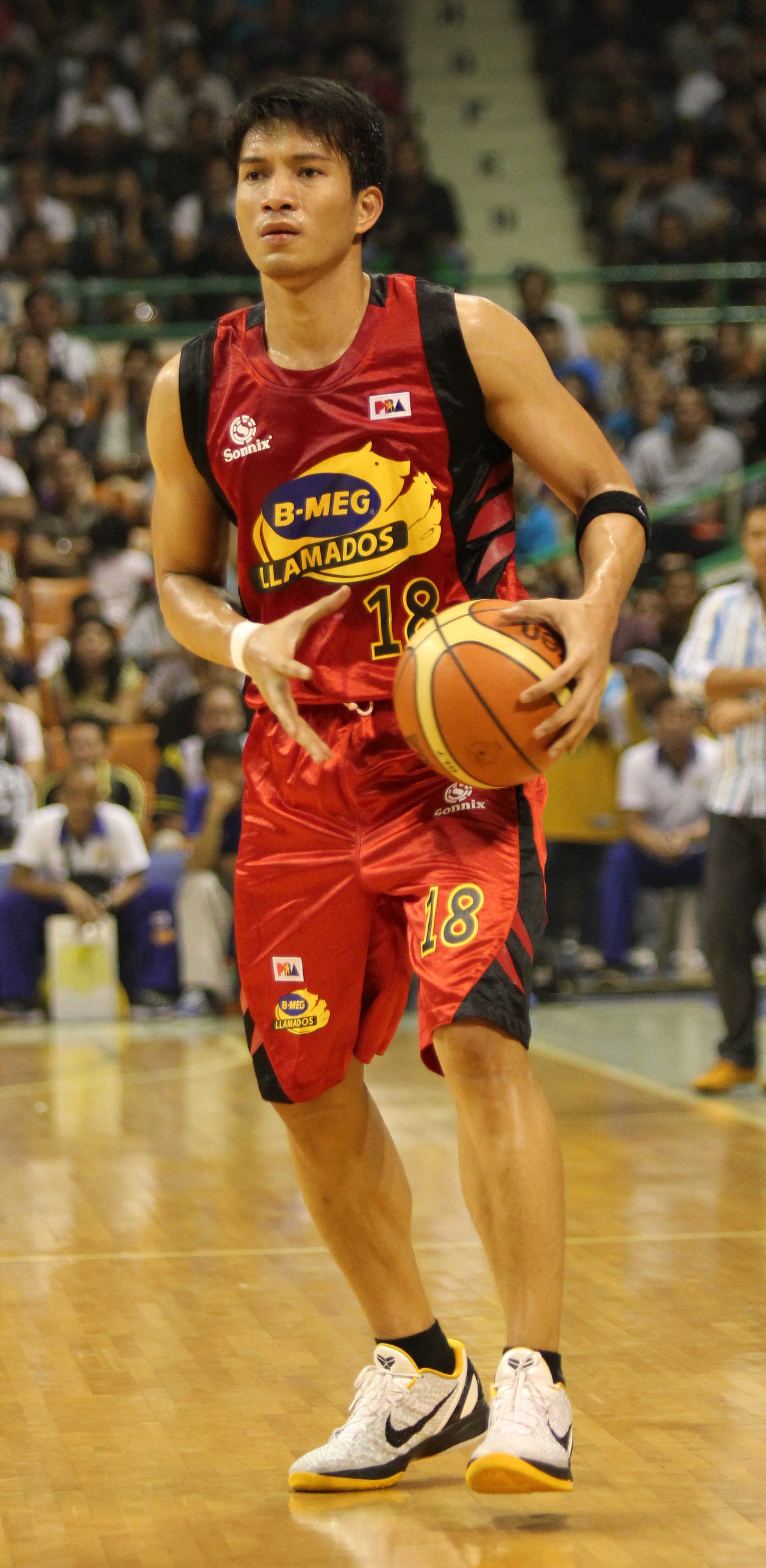 James Yap at The B-MEG Llamados vs. Talk N' Text Tropang Texters last October 21, 2011 at Cuneta Astrodome, Pasay City.